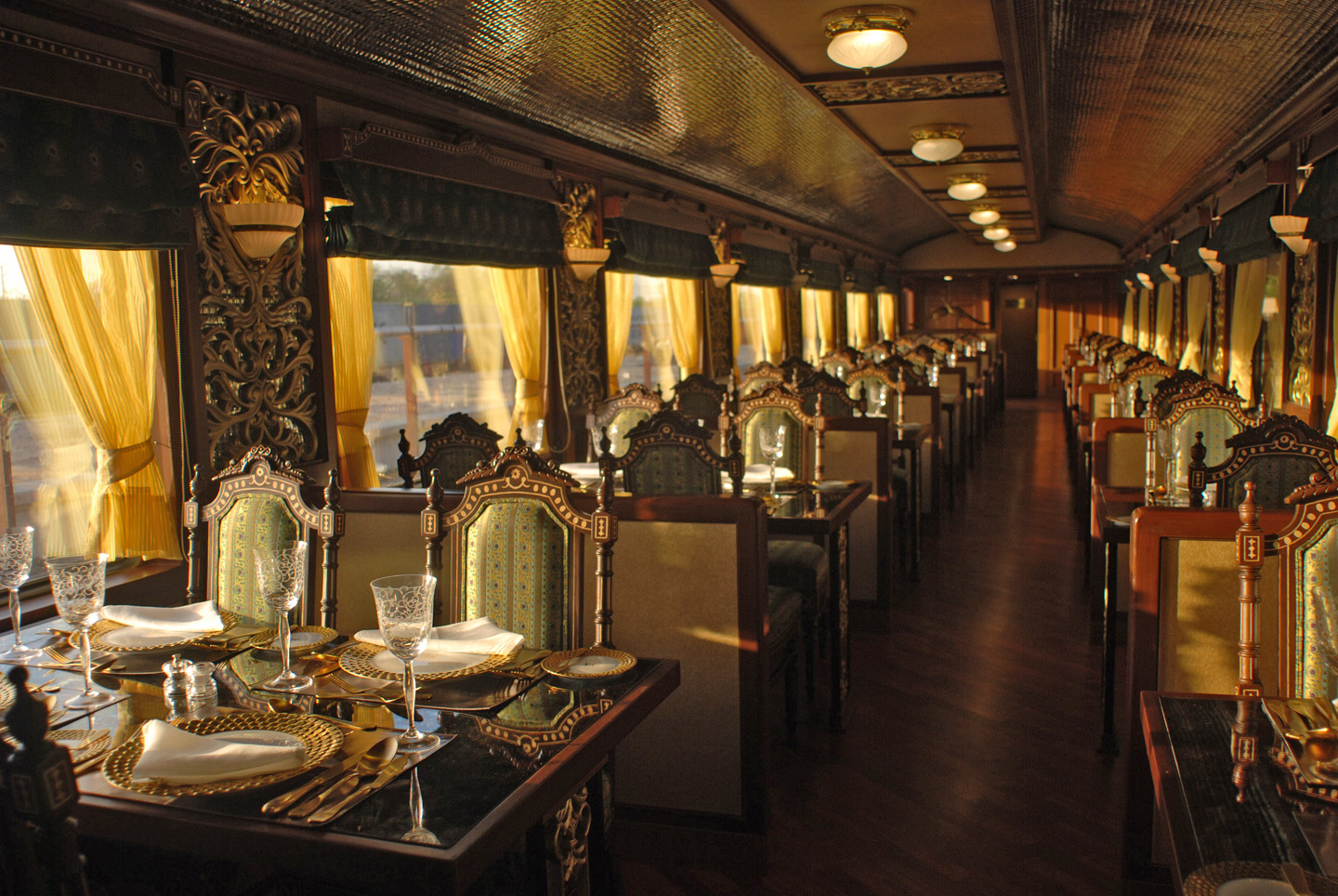 Train Chartering arranges the charter / hire of the Maharajas' Express and other luxury trains, as well as the hire of private rail cars or carriages. The Maharajas' Express began operations in March 2010. It is claimed - to be the finest luxury train in India,a new build, with modern amenities (a/c, WiFi etc), Indian / fusion cuisine and classic décor. Tickets are available from the Luxury Train Club. The Maharajas' Express can be chartered from Train Chartering.